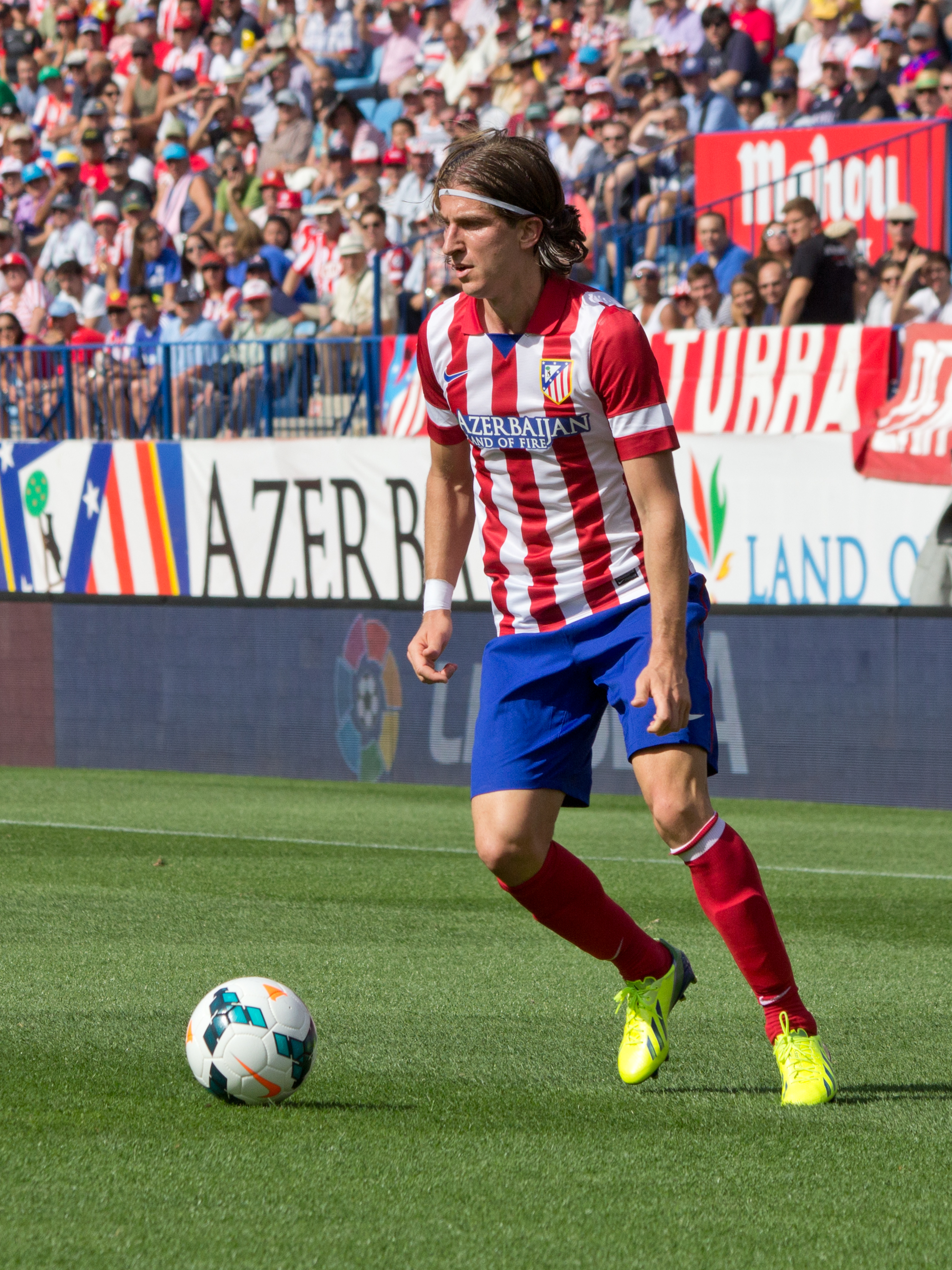 Filipe Luís, footballer of Atlético de Madrid.